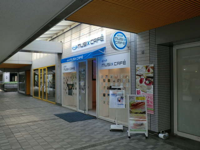 "ANIMAX MUSIX CAFE" produced by ANIMAX in Kitakyushu City, Fukuoka Prefecture, Japan.